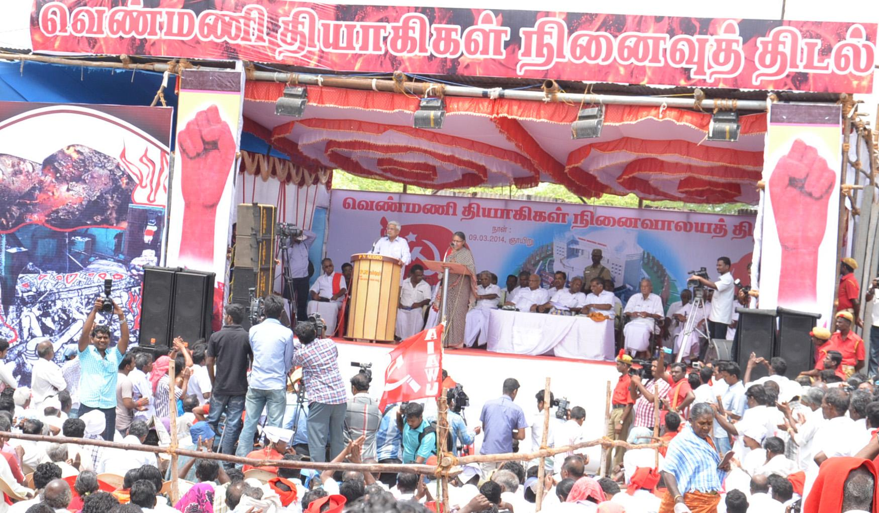 Nagapattinam, Venmani martyrs memorial building opening